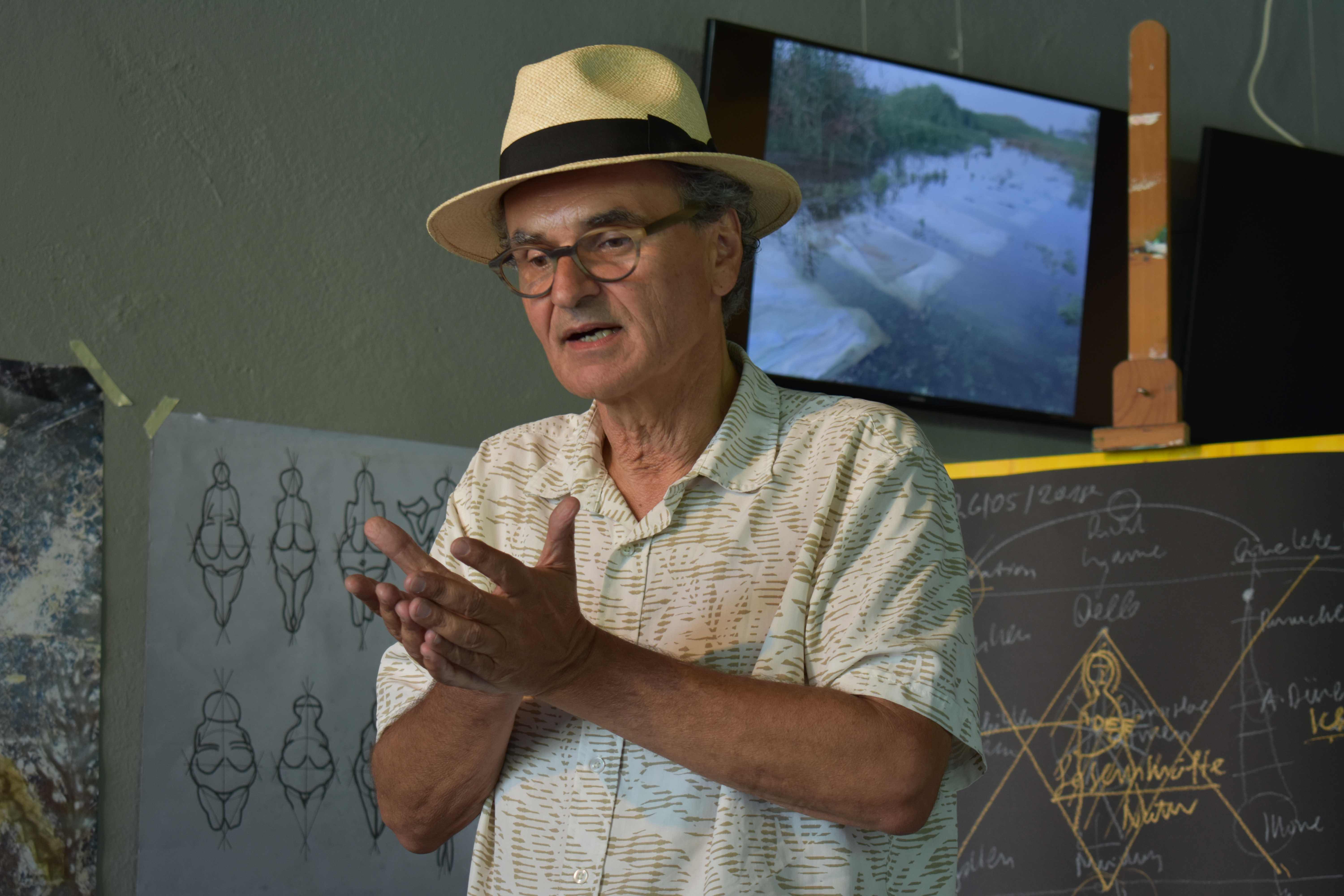 Photograph taken during the "Donauschule" lecture, in preparation for "7 Tage Donauschöpfung" taking place in September 2018.